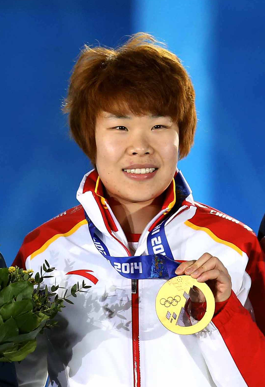 Zhou Yang.